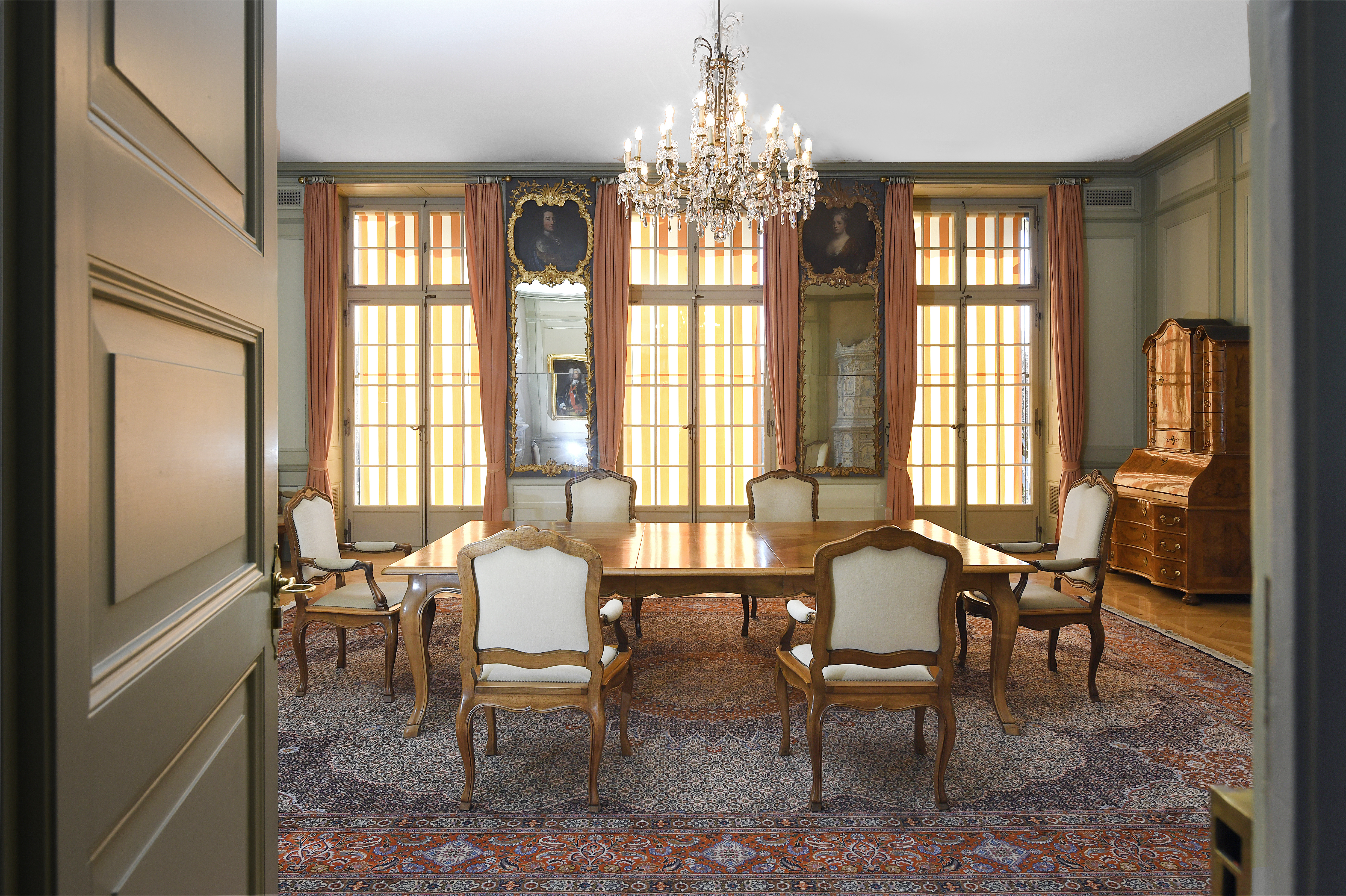 The room inside the Erlacherhof where the city Government (Gemeinderat) debates and decides eache Wednesday.